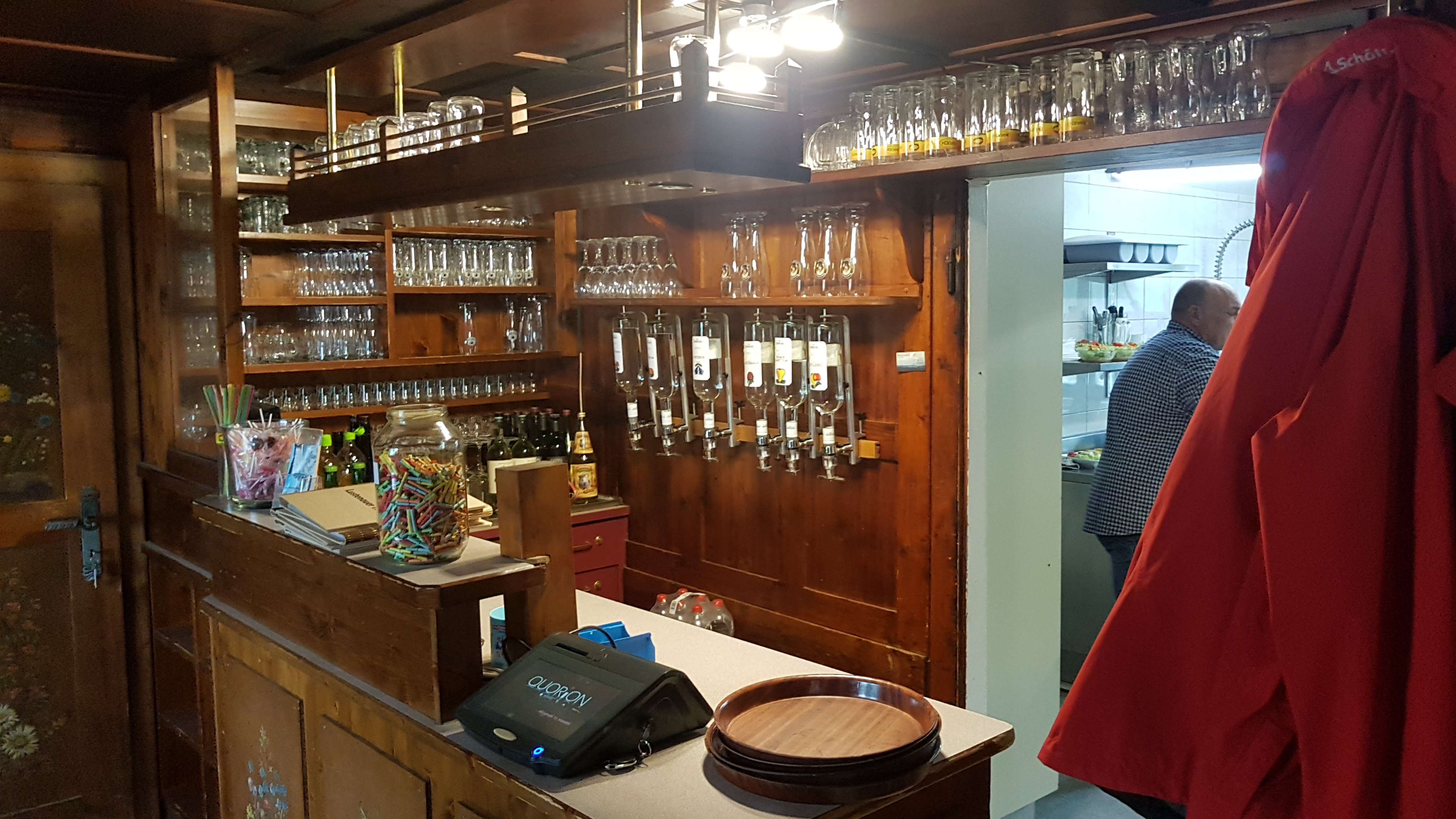 Lustenauer Huette (chalet) in Schwarzenberg (Bregenz Forest), Vorarlberg, Austria.